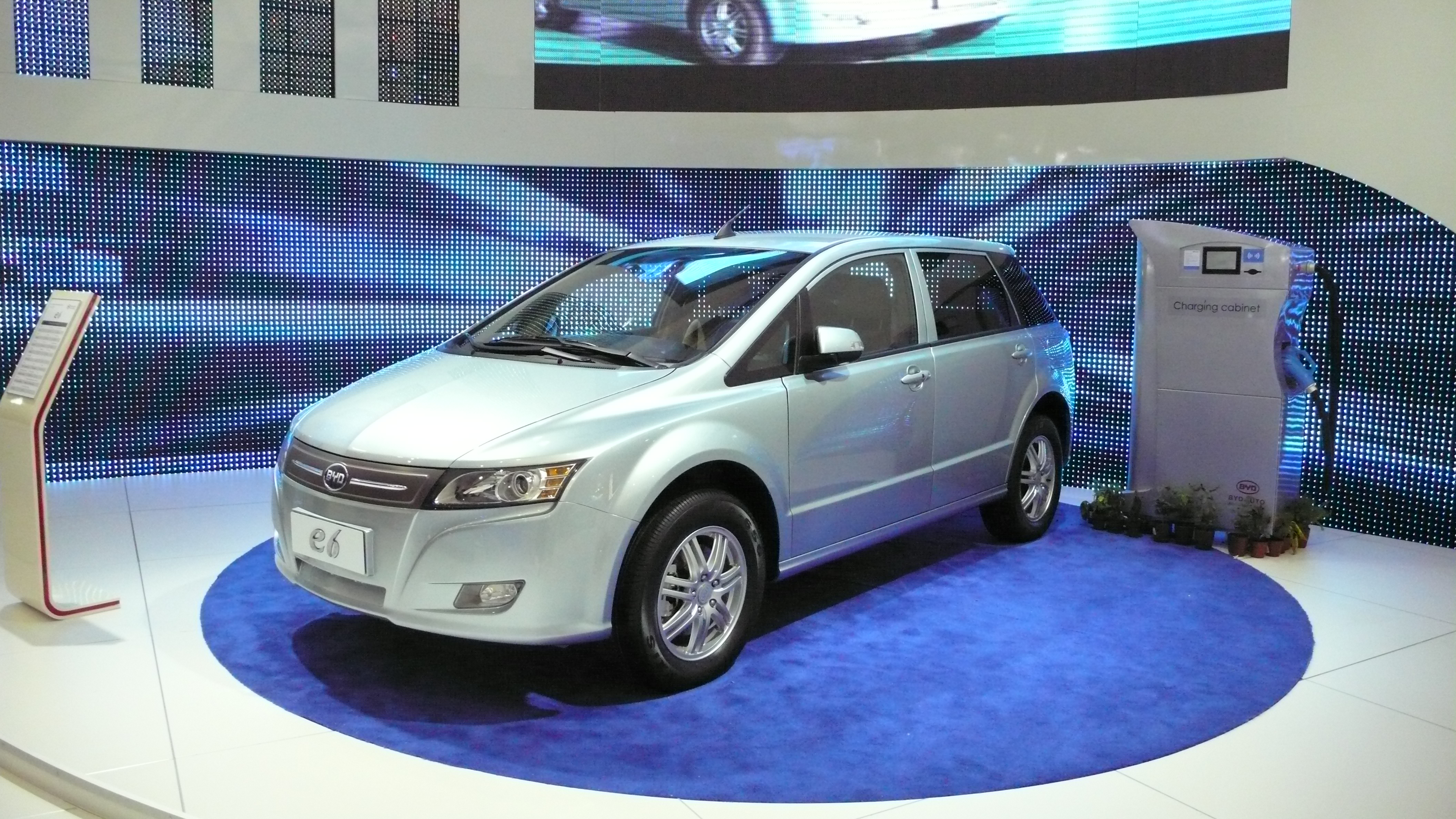 A BYD e6 electric crossover.